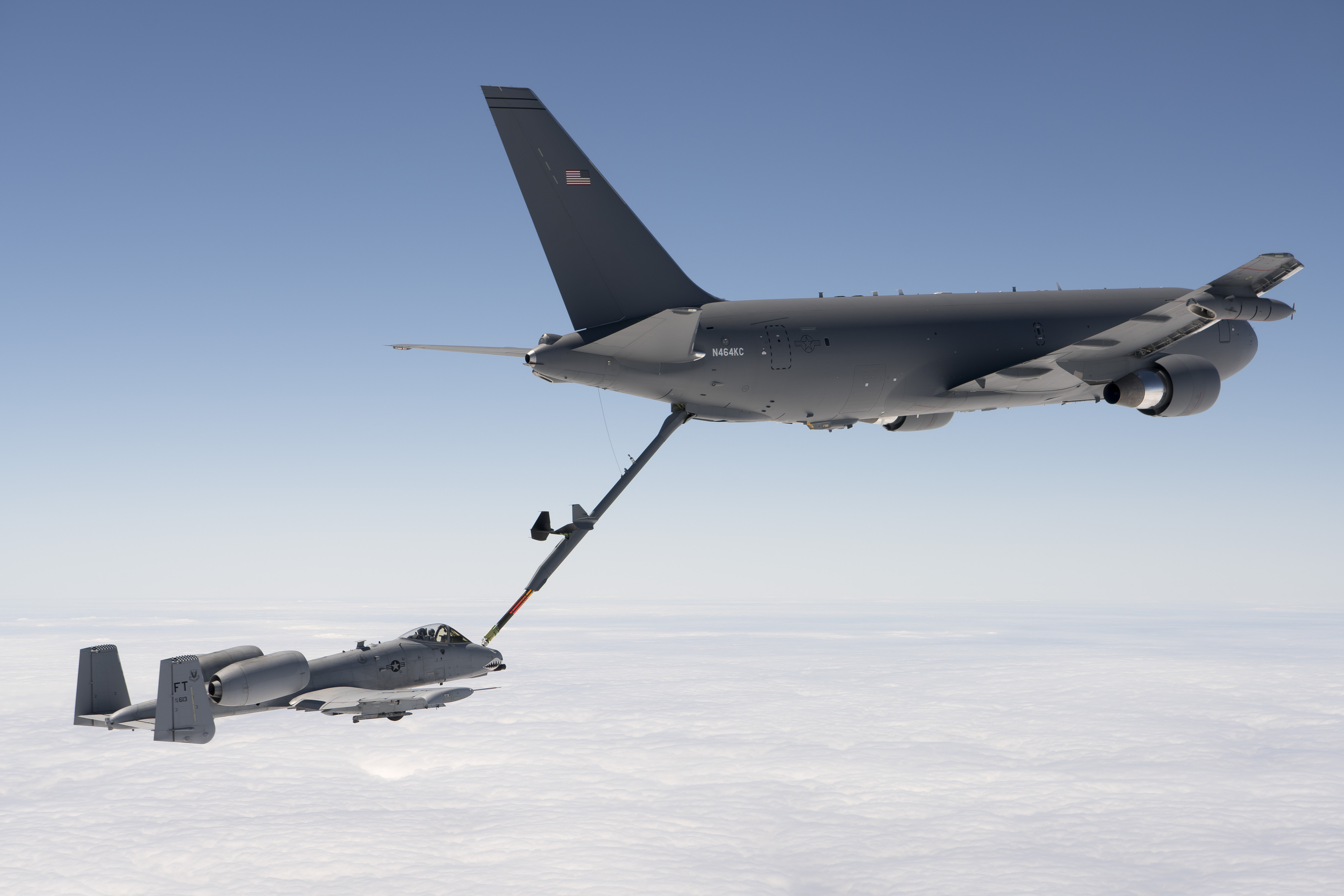 KC-46 refuels A-10 during Milestone C test